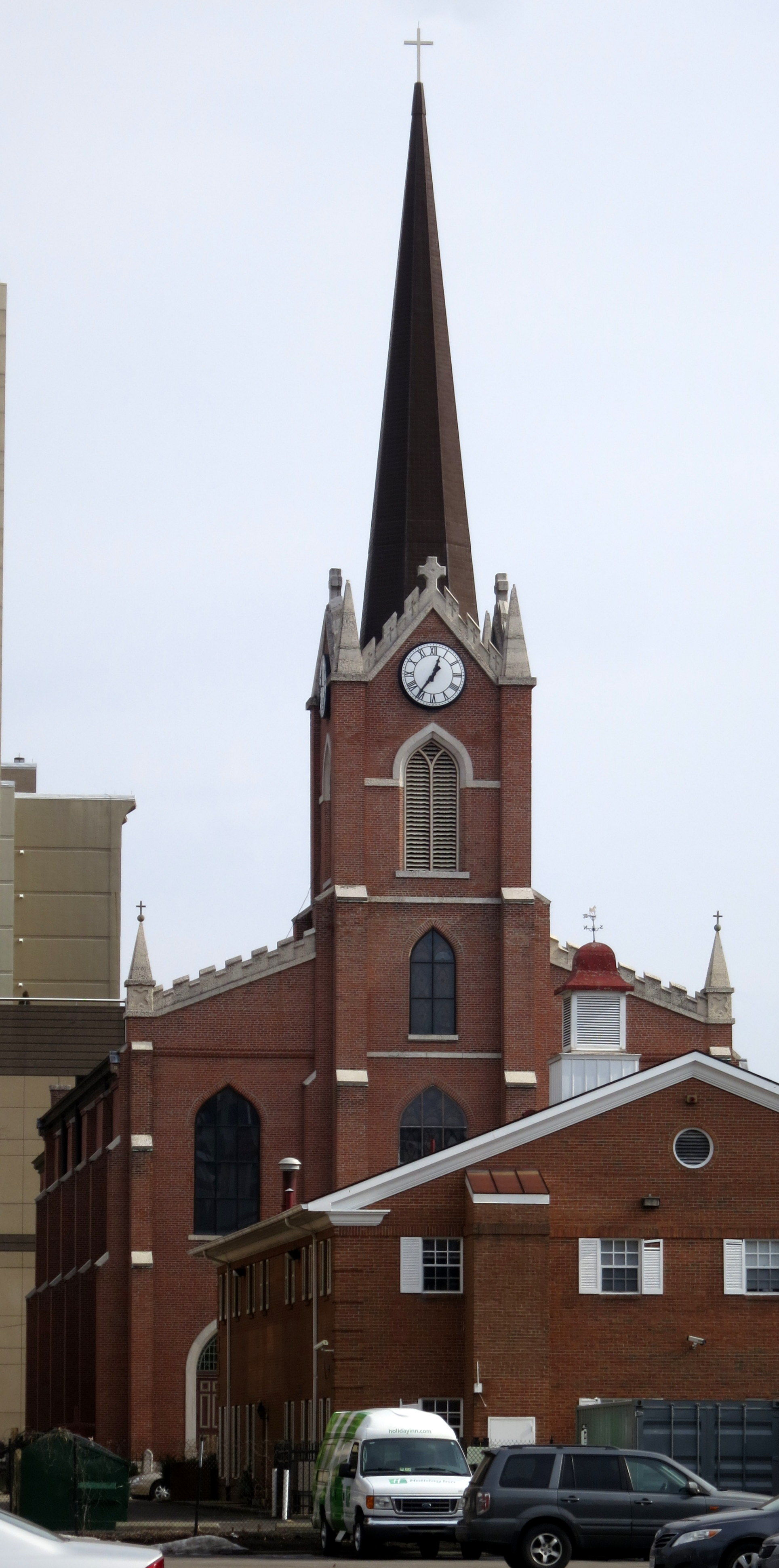 Holy Cross Catholic Church (Columbus, Ohio) - exterior photo from 4th Street